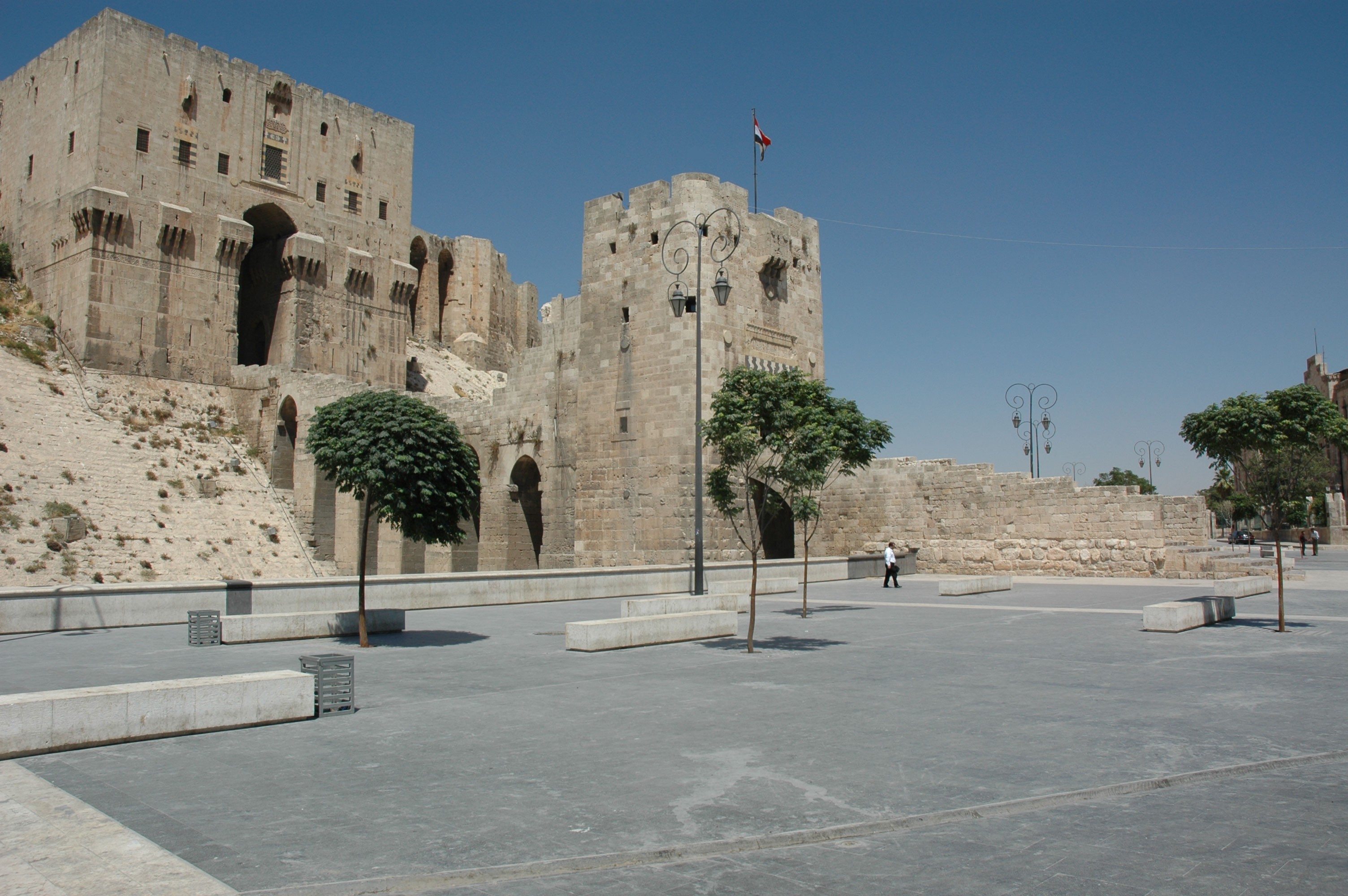 Ancient City of Aleppo (Syrian Arab Republic)